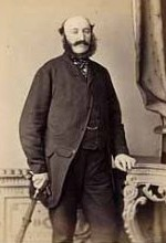 Henry Somerset, 8th Duke of Beaufort (1824-1899)